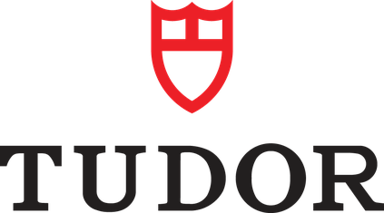 Tudor Watch Logo